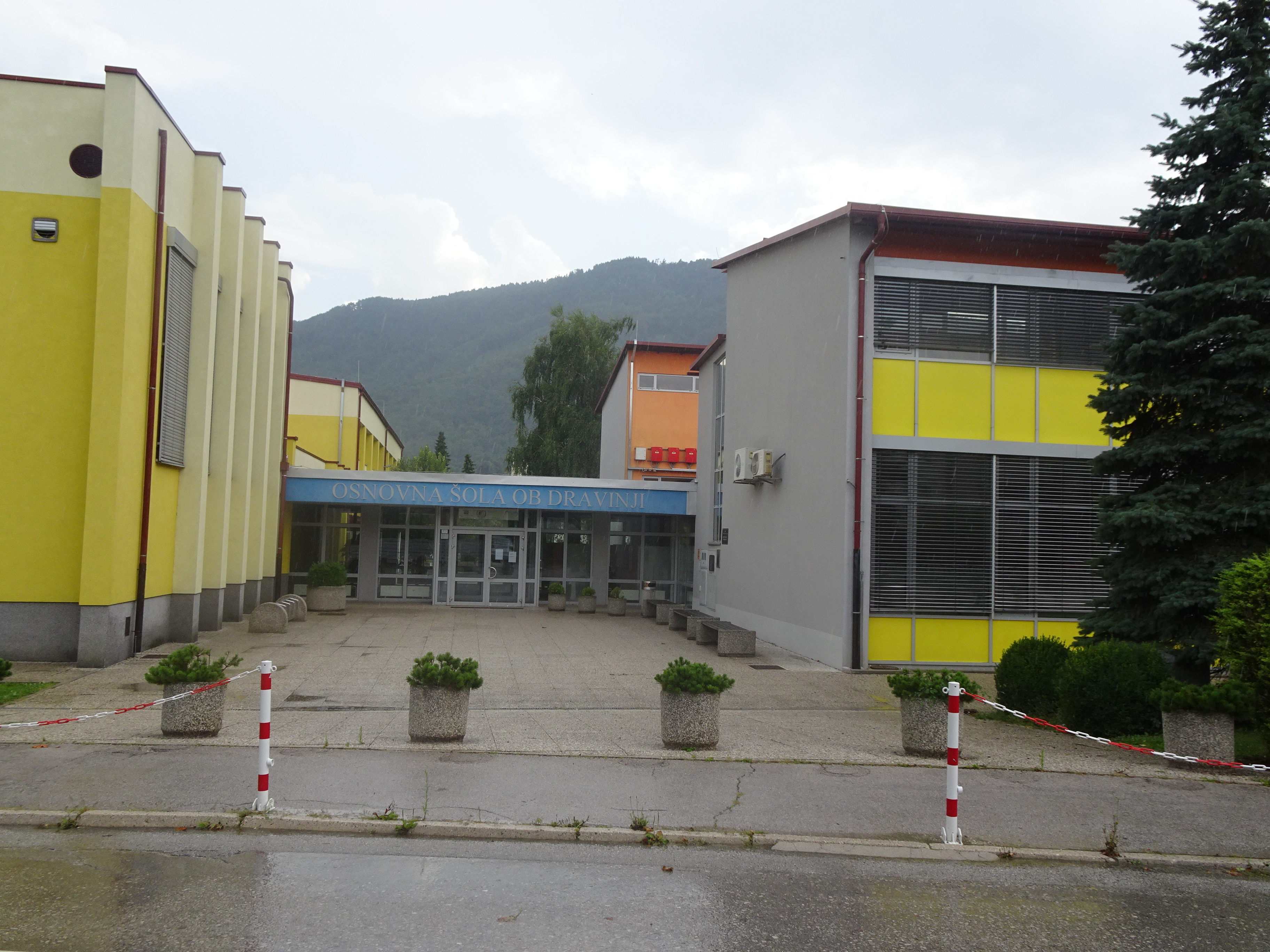 Primary school ob Dravinji, Slovenske Konjice, Slovenia